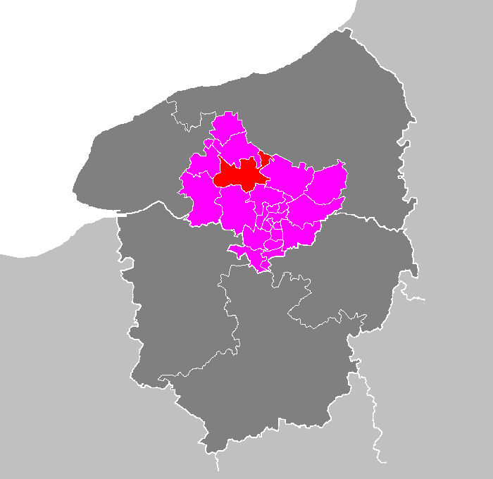 Maps of arrondissements and cantons of France: Arrondissement de Rouen - Canton de Pavilly.PNG